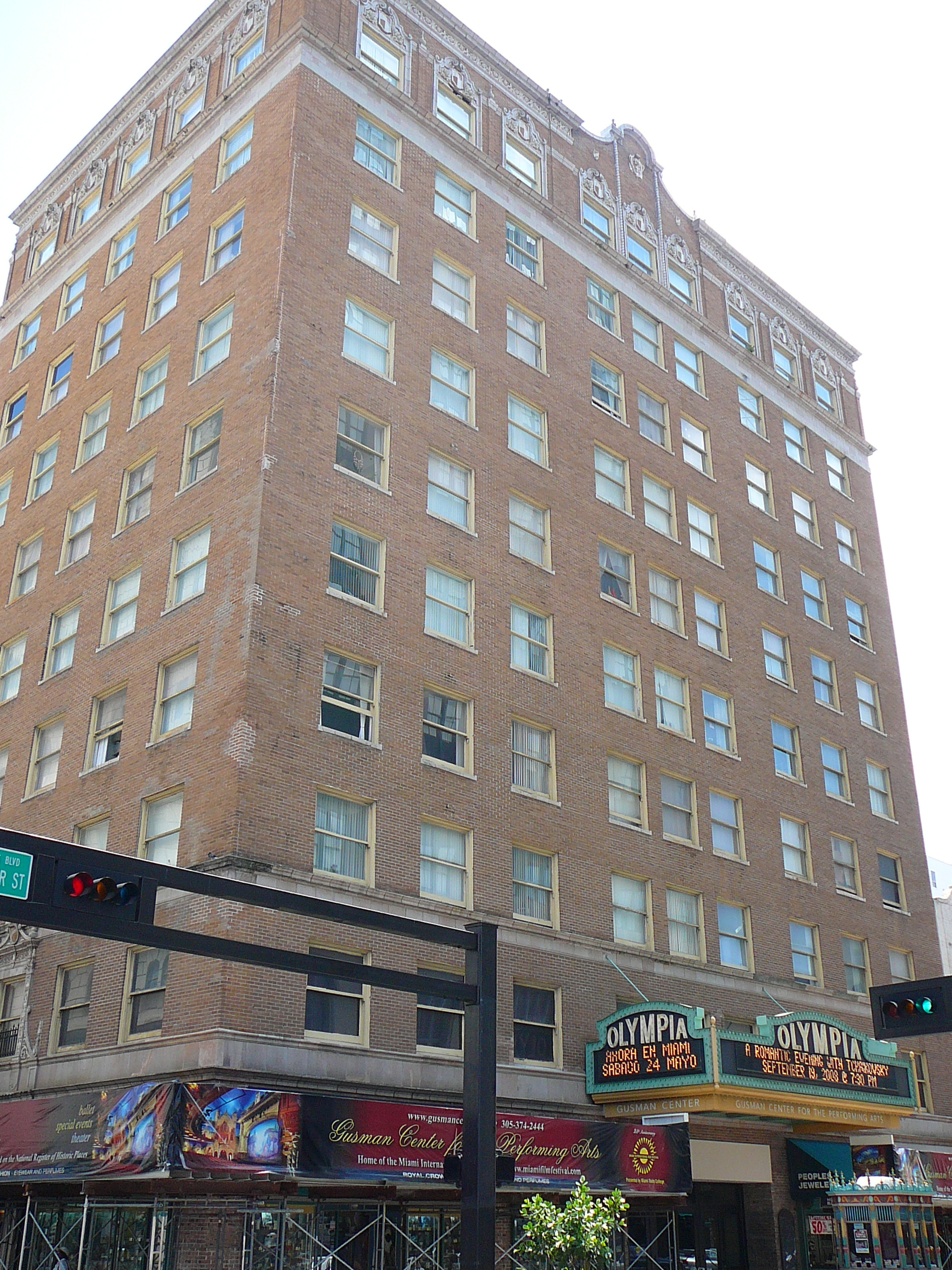 Digital photo taken by Marc Averette.